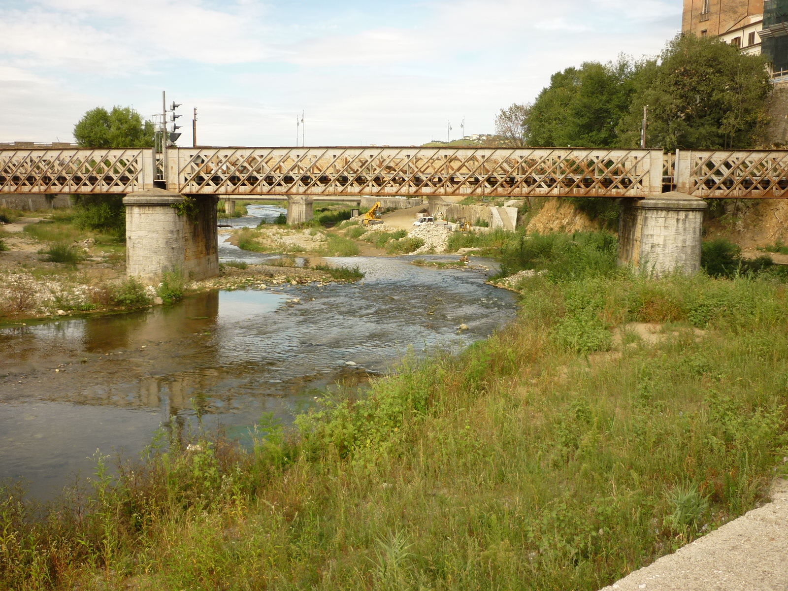 River Busento in Cosenza, Calabria, Italy